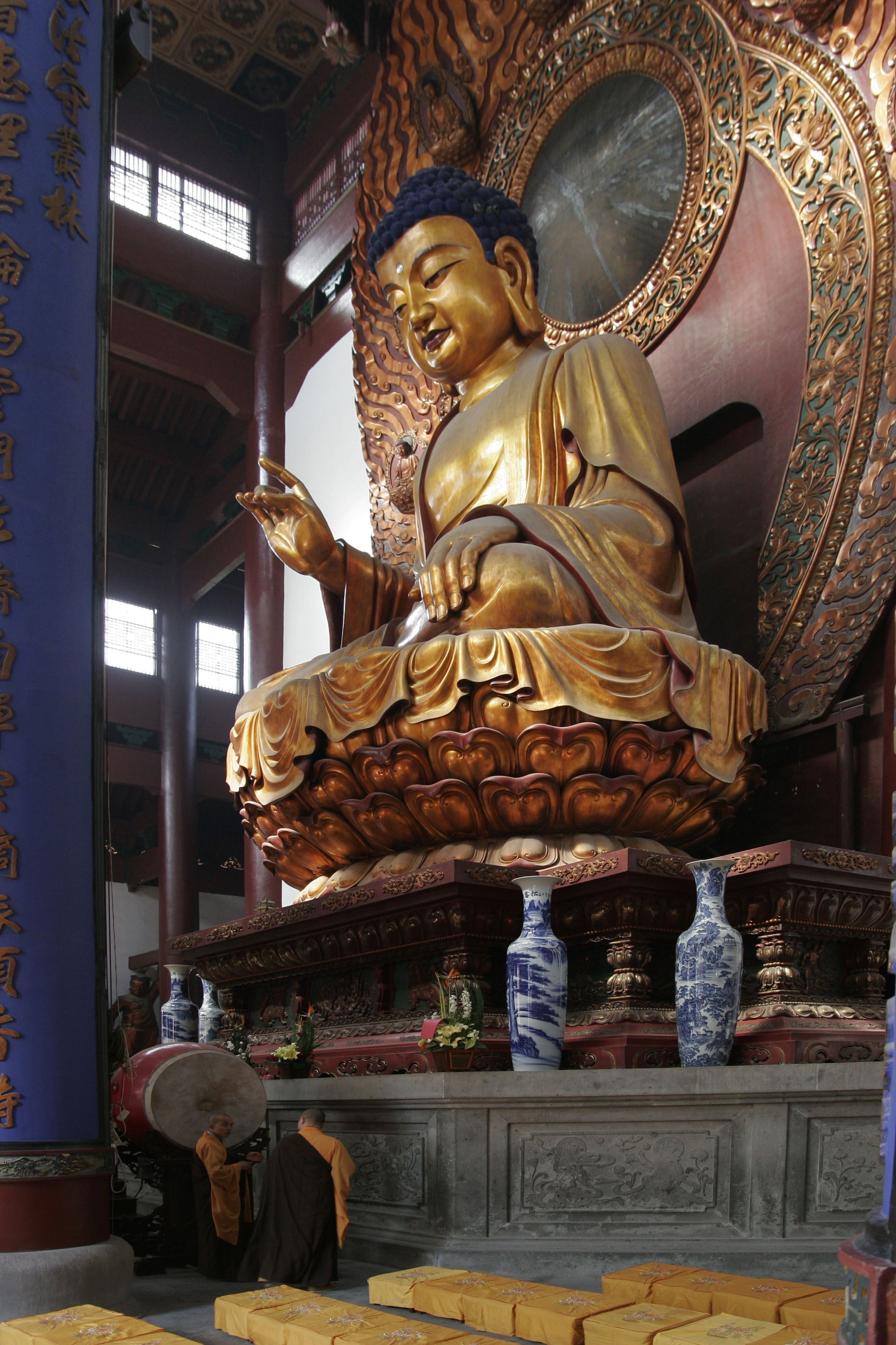 Shakyamuni-Buddha, in Grand Hall of the Great Sage of Lingyin Temple close to Hangzhou, Zhejiang Province, China.